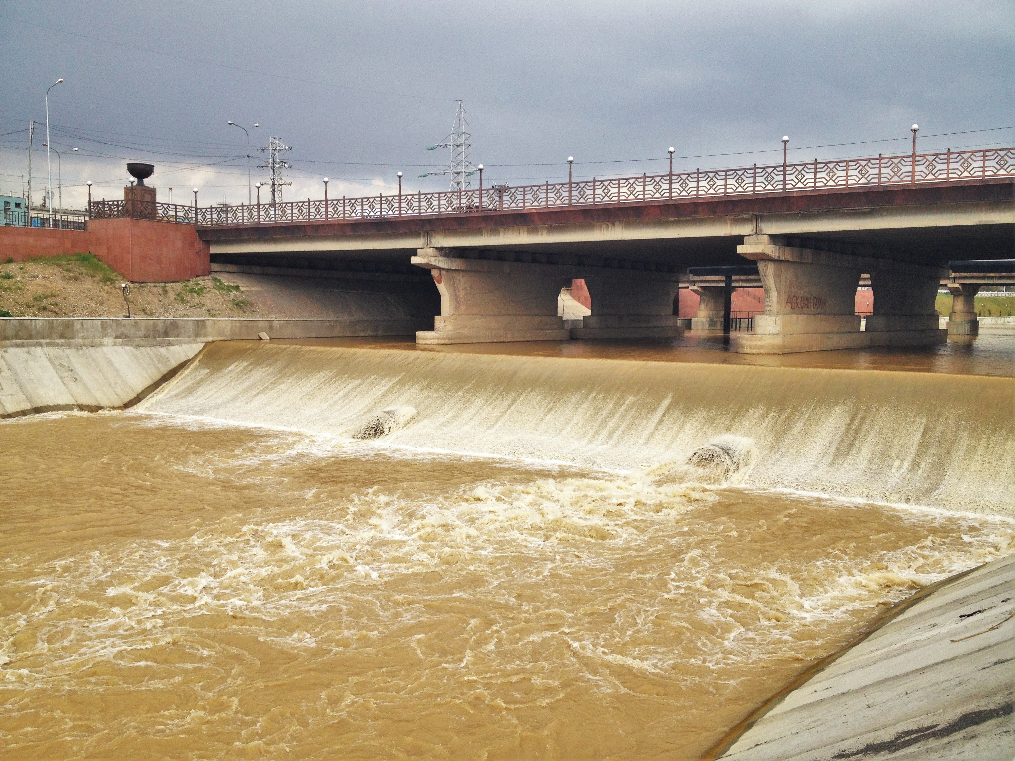 Bridge through Badam in Shymkent